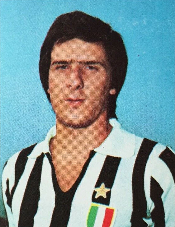 Italian footballer Gaetano Scirea with Juventus F.C. in the 1975–76 season.